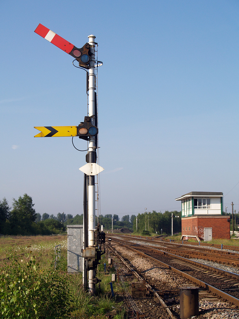 Castleton East Junction signal box 59 signal (Up Main Home 2, with R57 Up Main I.B. Home 1 Distant below). Sunday 8th June 2008